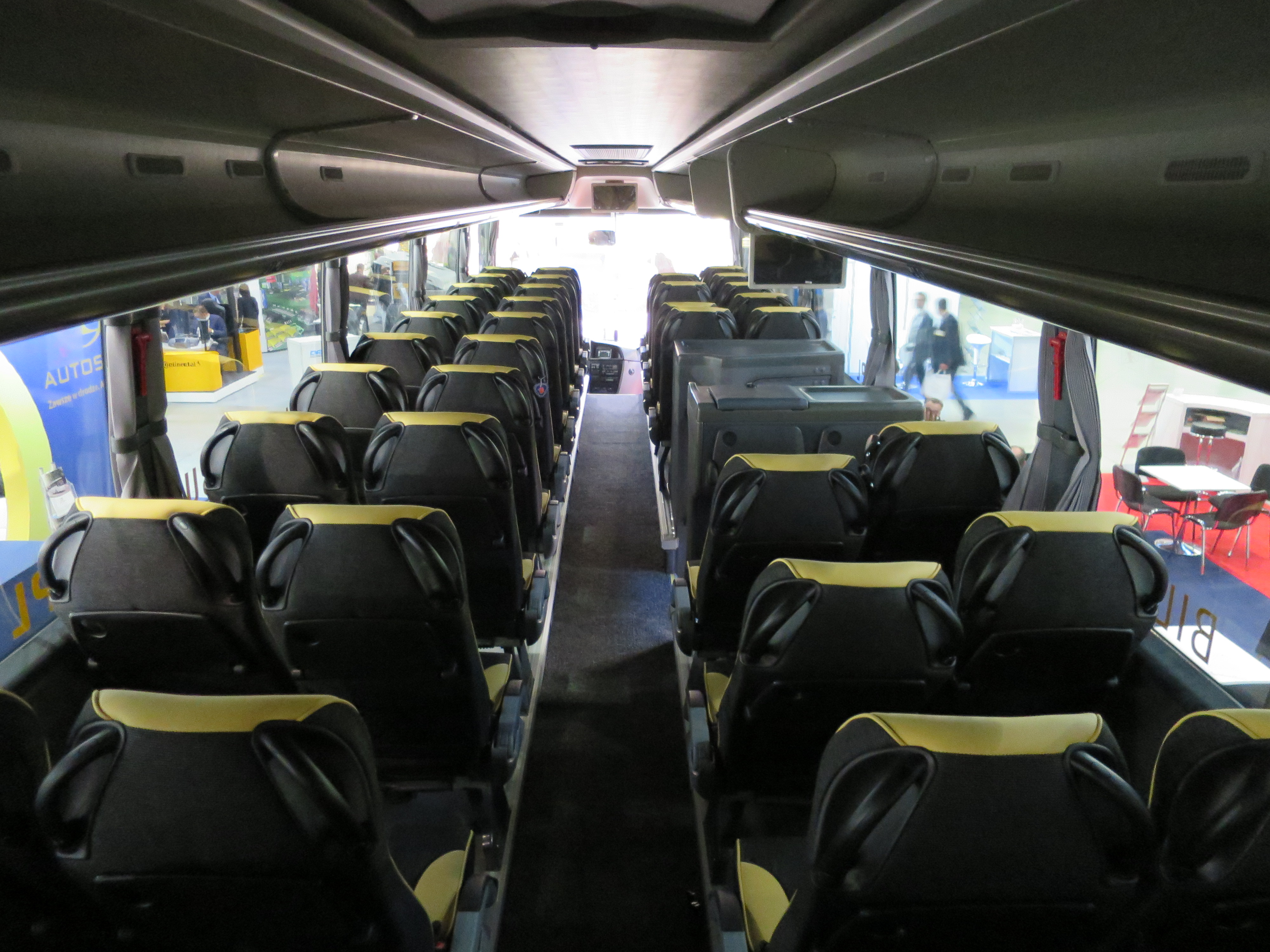 The making of this document was supported by Wikimedia Polska Association, within Wikigrant no. WG 2016-45. Scania Touring Super PKS